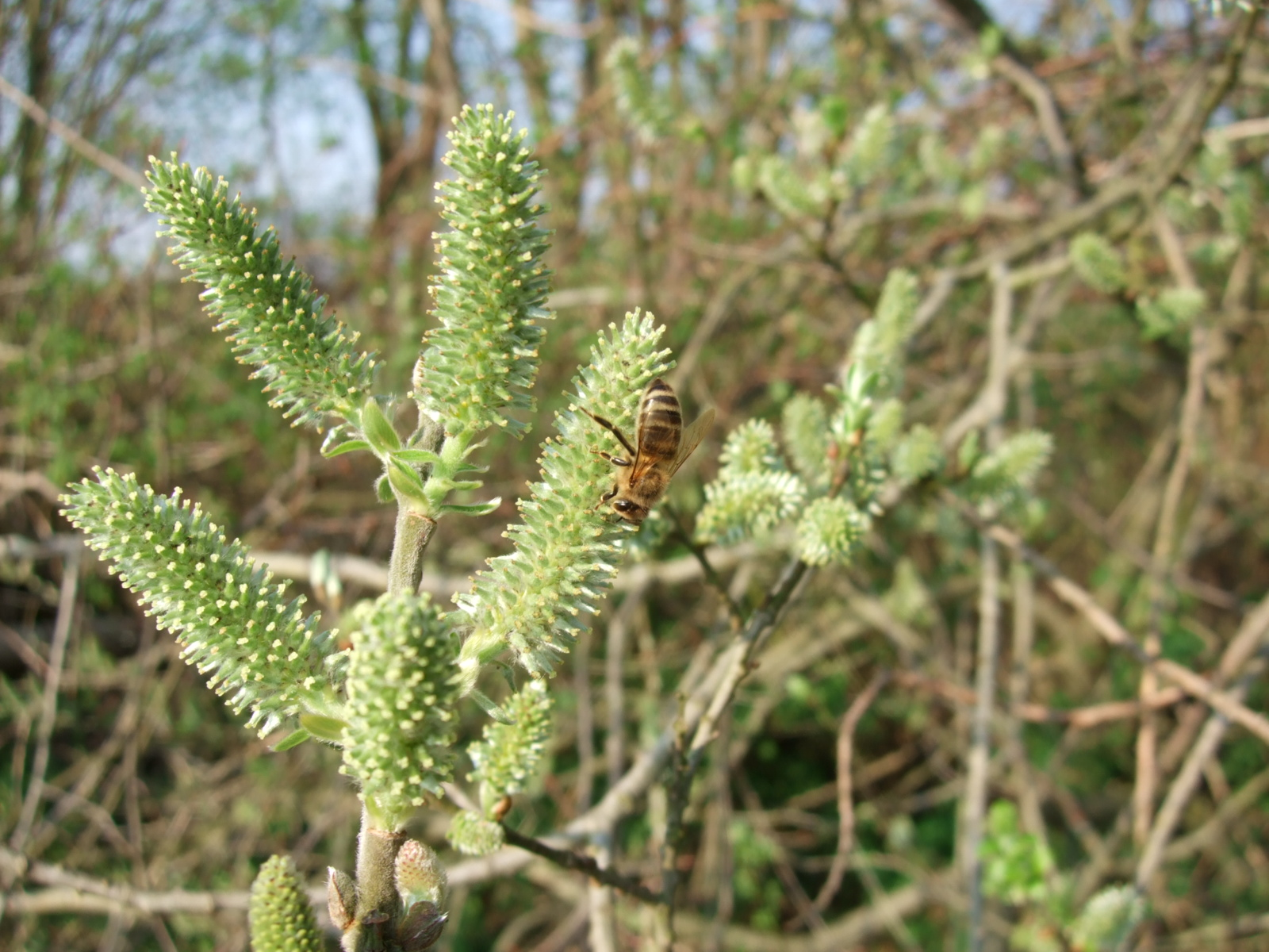 Female catkins of Salix cinerea with bee (Apis mellifera)